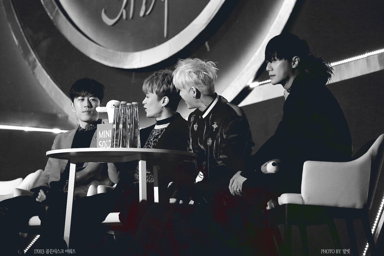 170113 SechsKies at Golden Disc Awards